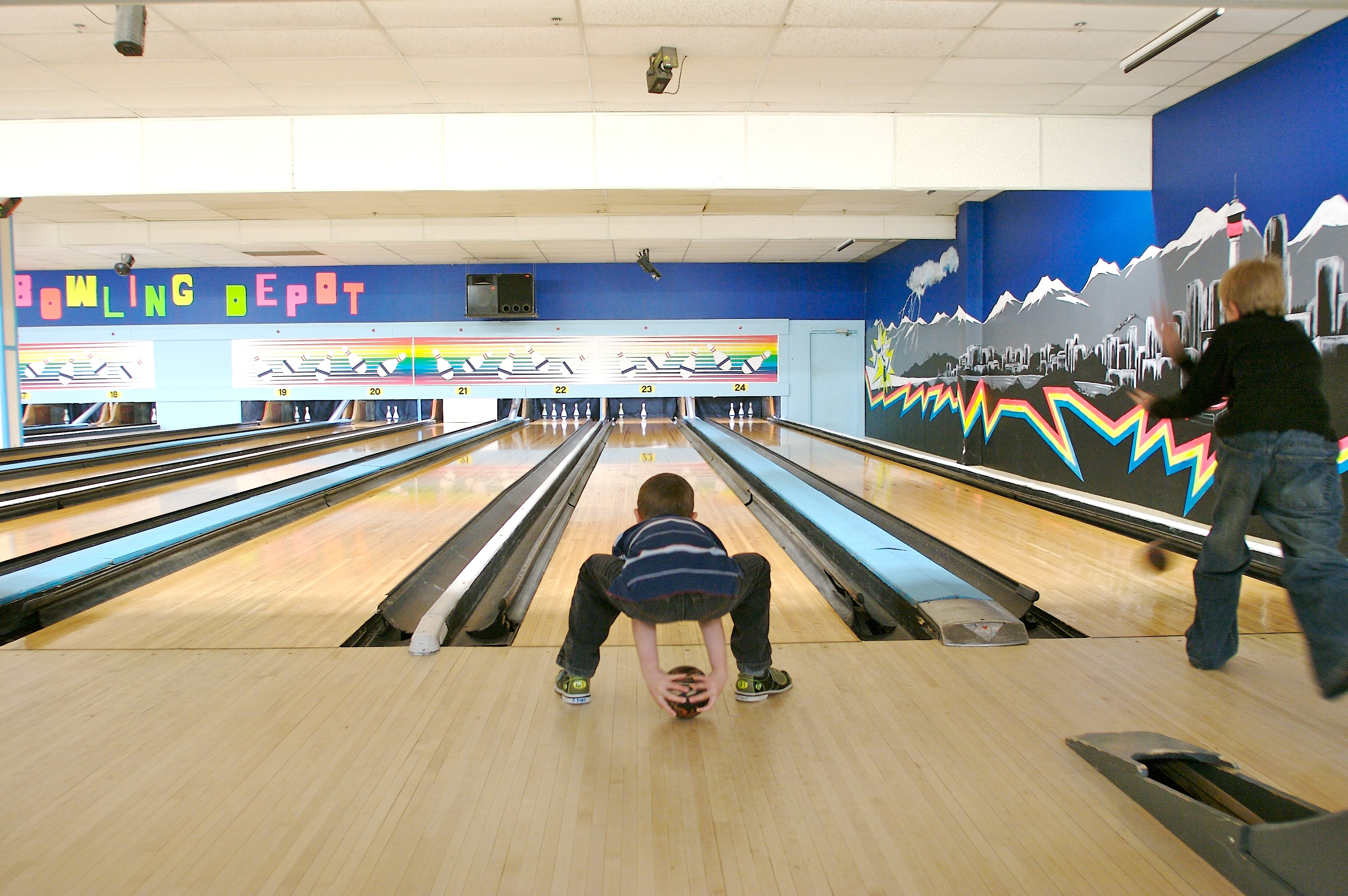 A young boy five-pin bowling in Canada